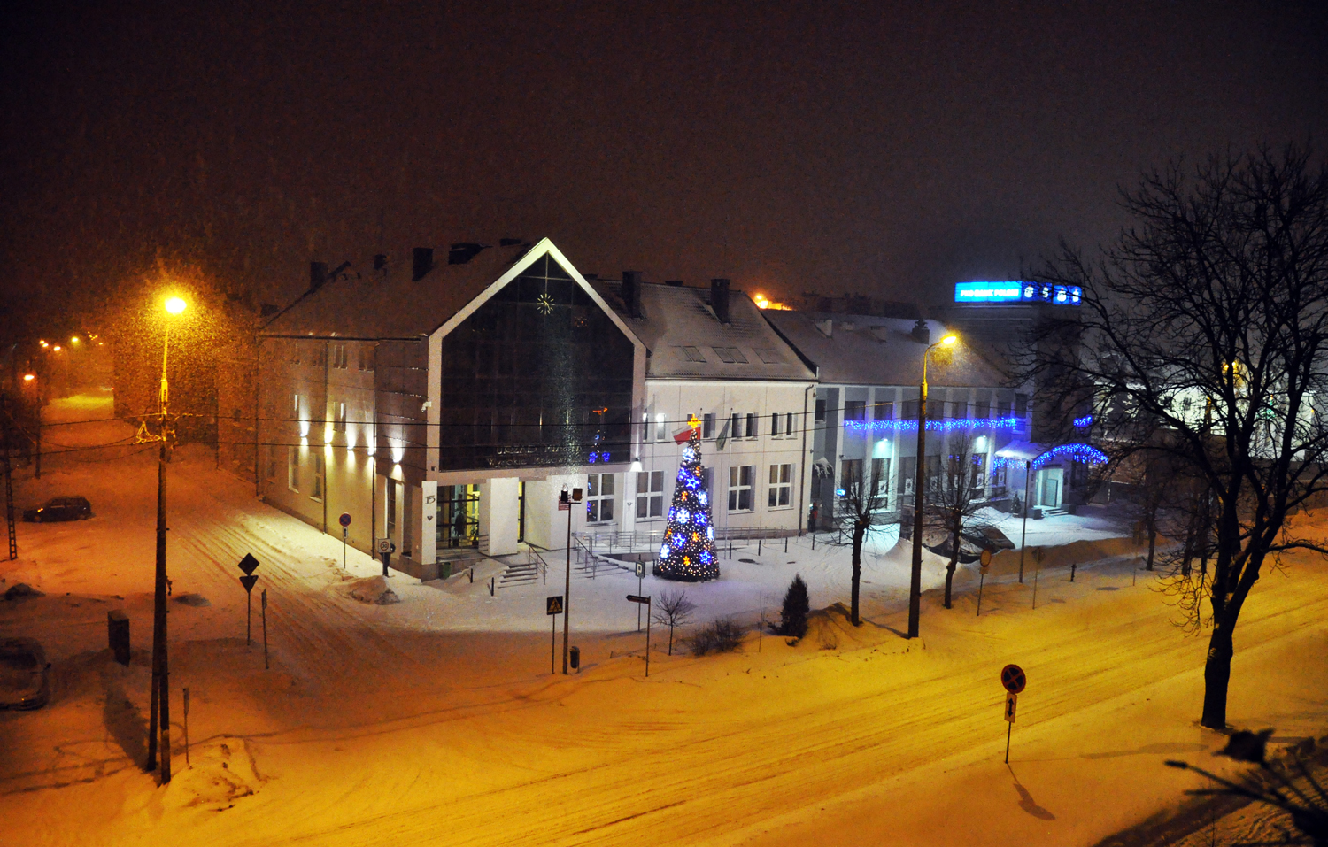 City Hall in winter